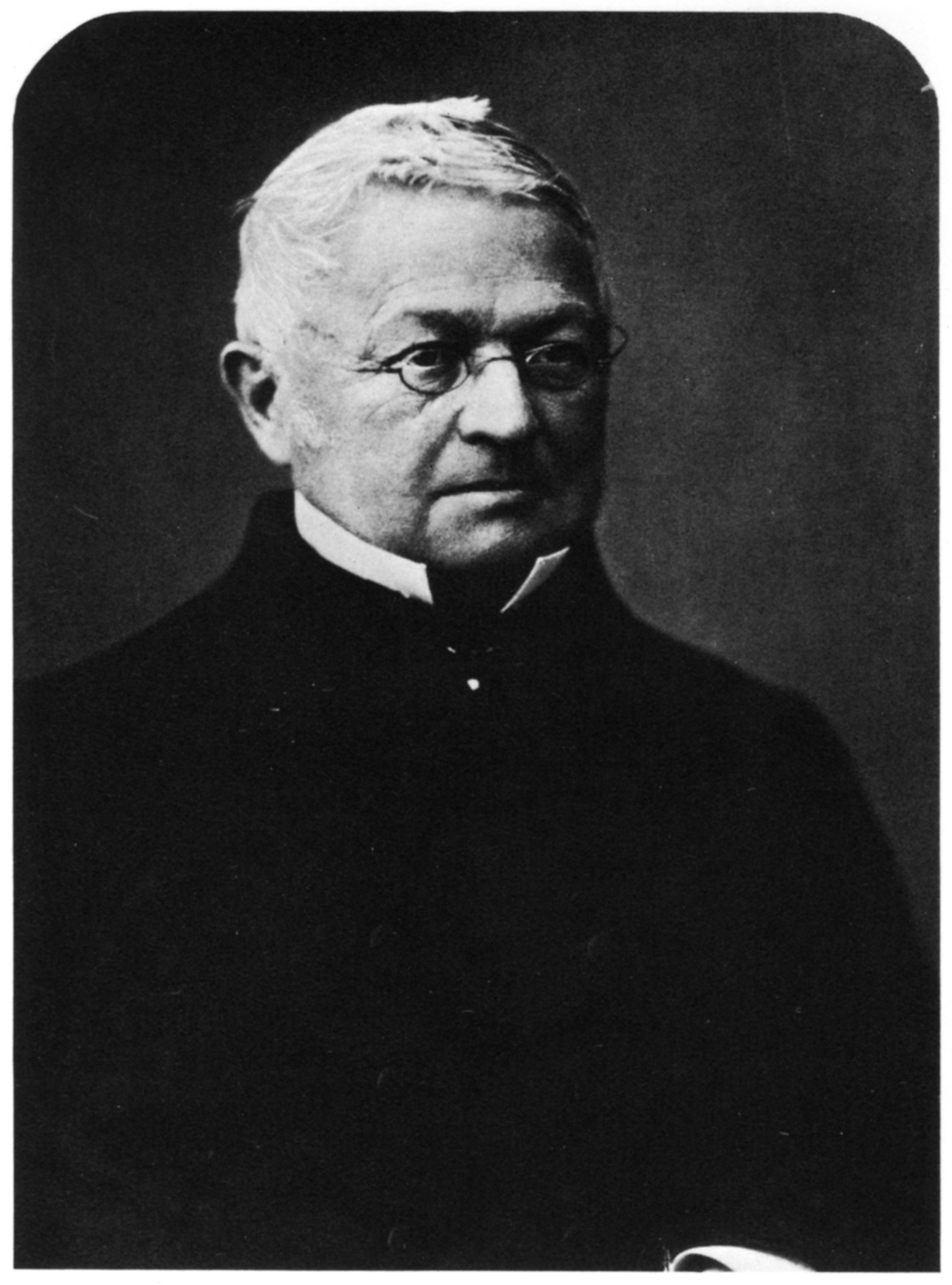 Adolphe Thiers Nadar